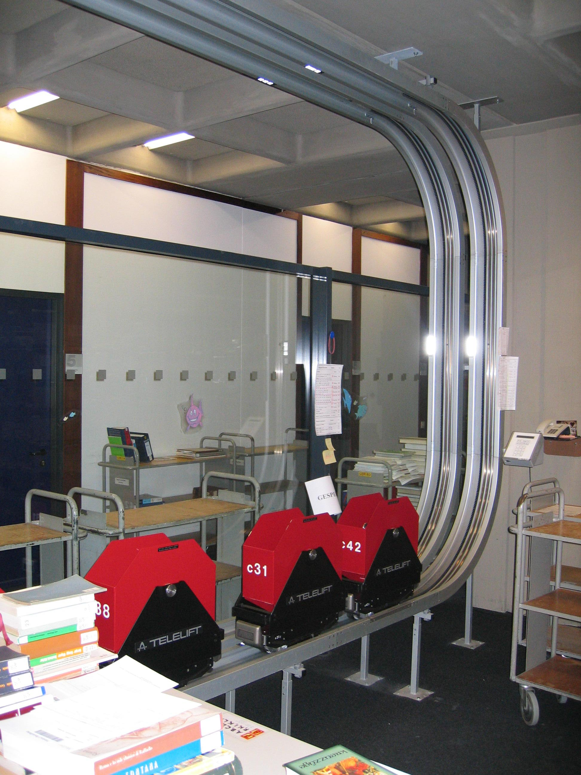 Telelift station in the library of the University of Regensburg